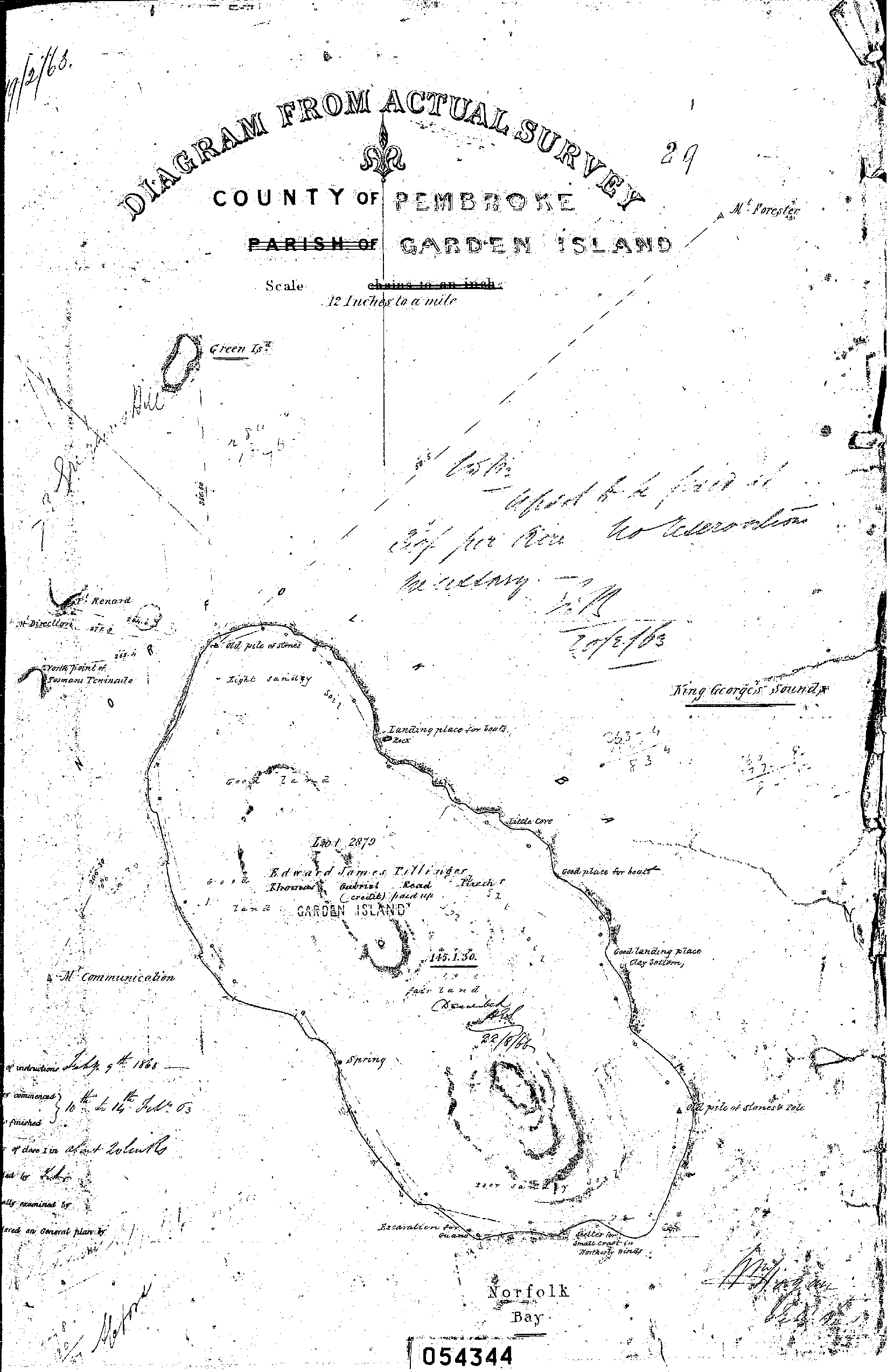 Survey of Smooth Island conducted in 1863 (birds eye view)